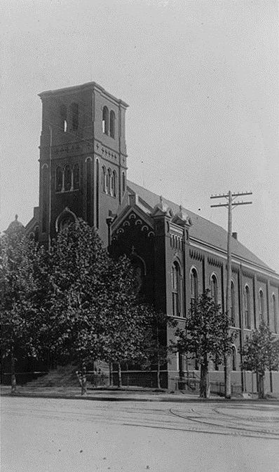 Saint Stephen Martyr Catholic Church at 24th Street and Pennsylvania Avenue NW in Washington, D.C. in the United States. Photo is dated to between 1909 and 1919.